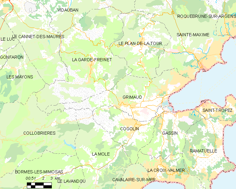 Map of French municipality Grimaud